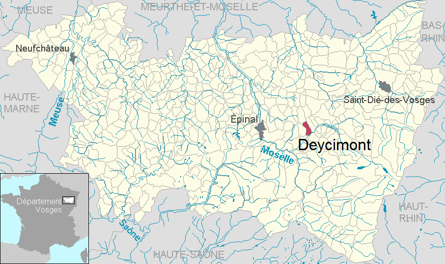 Deycimont in the department of Vosges, Lorraine, France